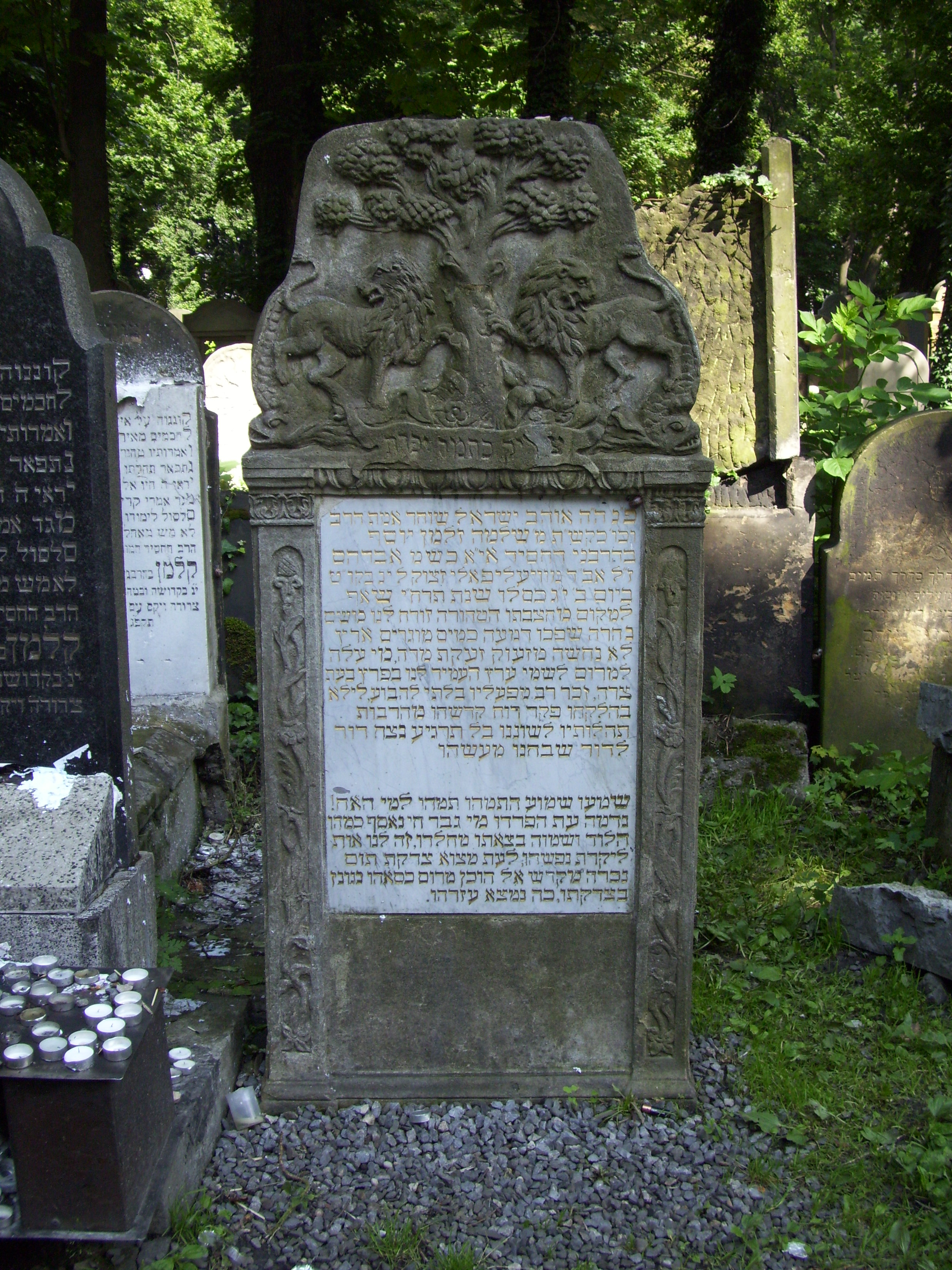 Grave of Szlomo Zalman from Wielopole in New Jewish Cemetery in Kraków